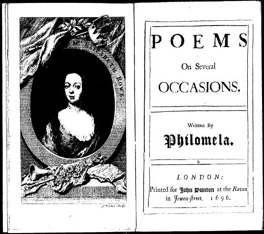 Frontispiece and title page to Poems on Several Occasions by Elizabeth Singer Rowe, aka Philomela, 1696